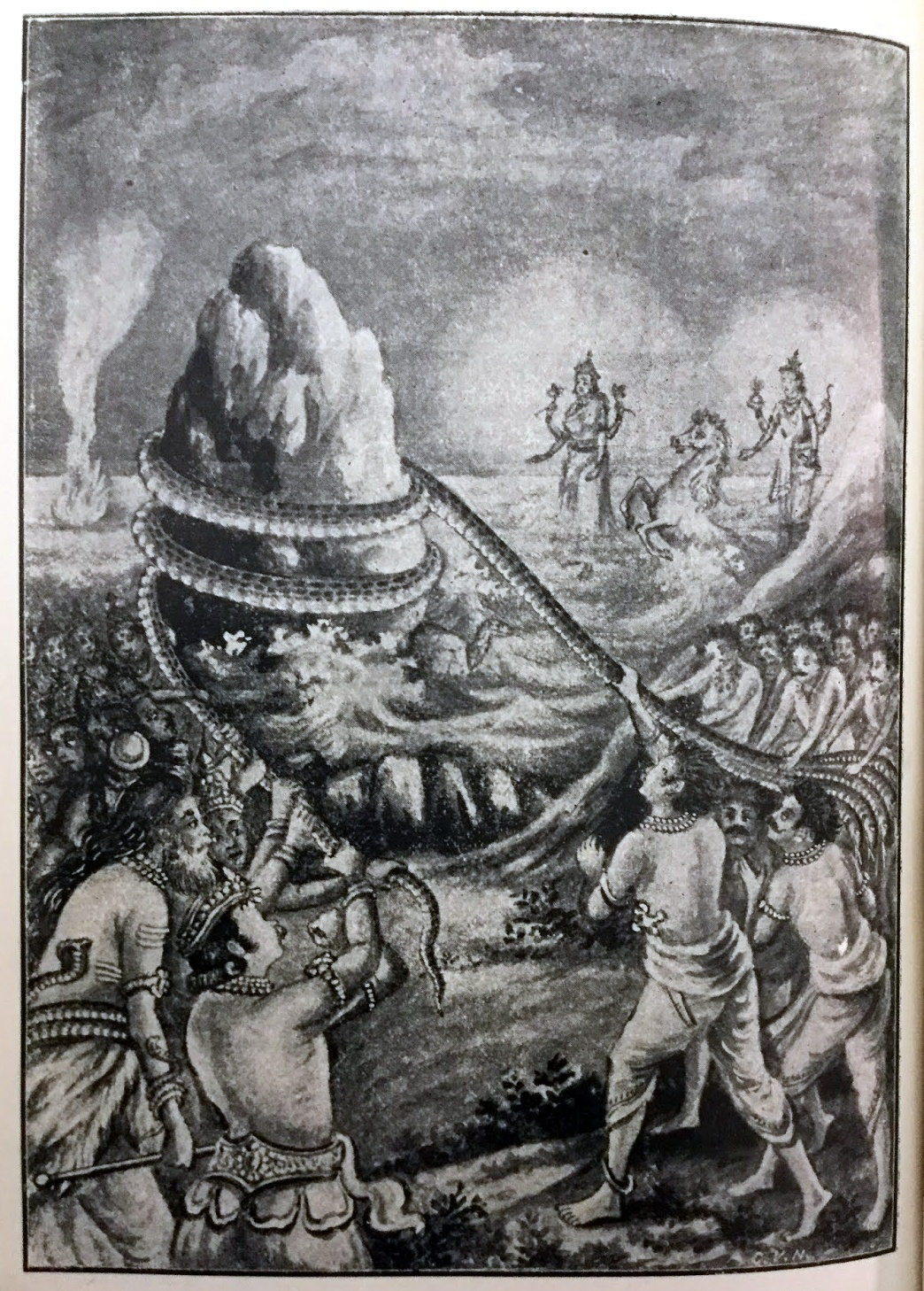 THESE ARE FROM A 100 YEAR OLD BOOK, available in the British library in London.